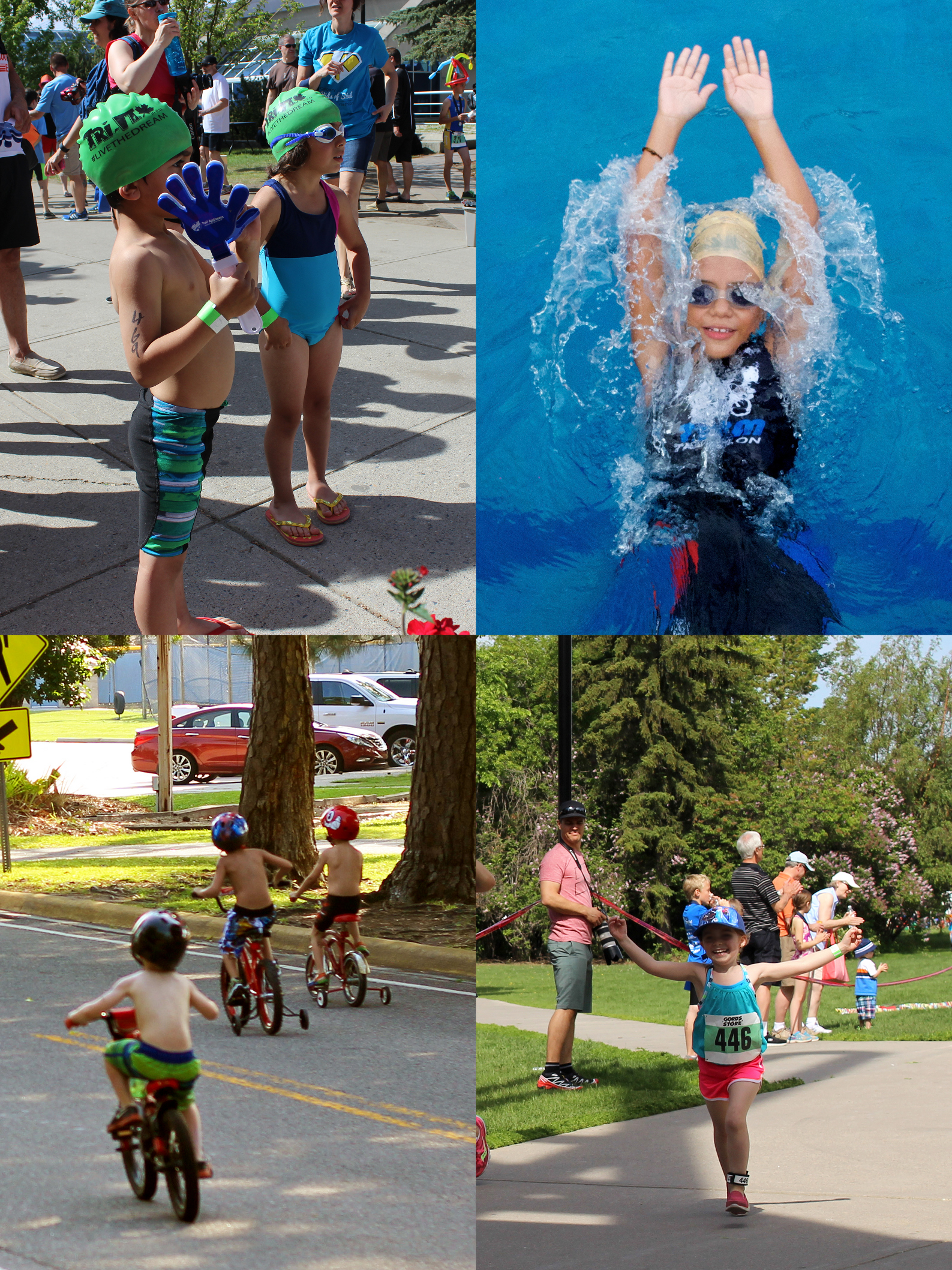 Kids-Triathlon